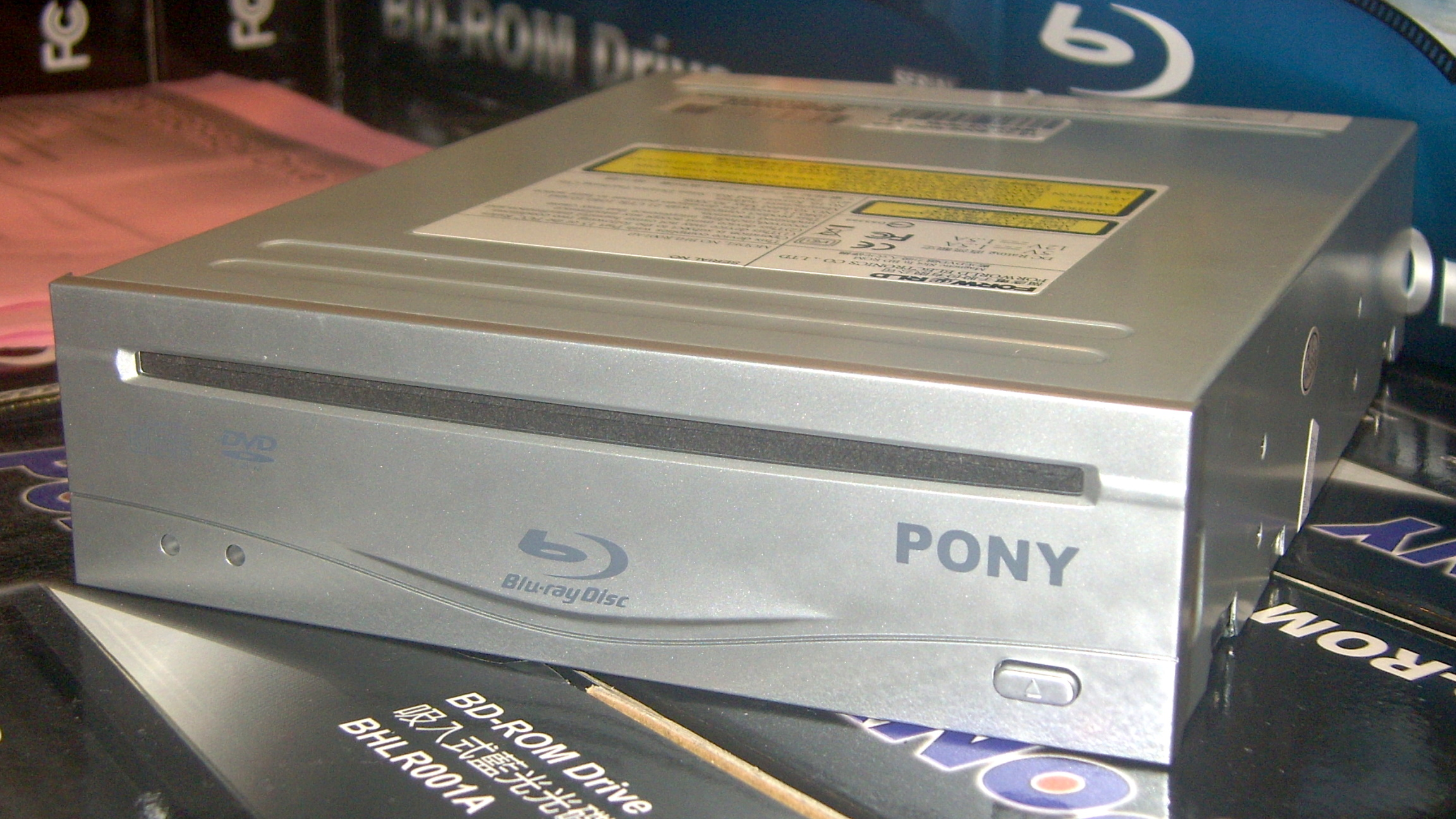 2008 Taipei IT Month: Pony BHLR001A Blu-ray disc drive.2008年資訊月臺北場，臺灣魄力資訊吸入式藍光光碟機BHLR001A。